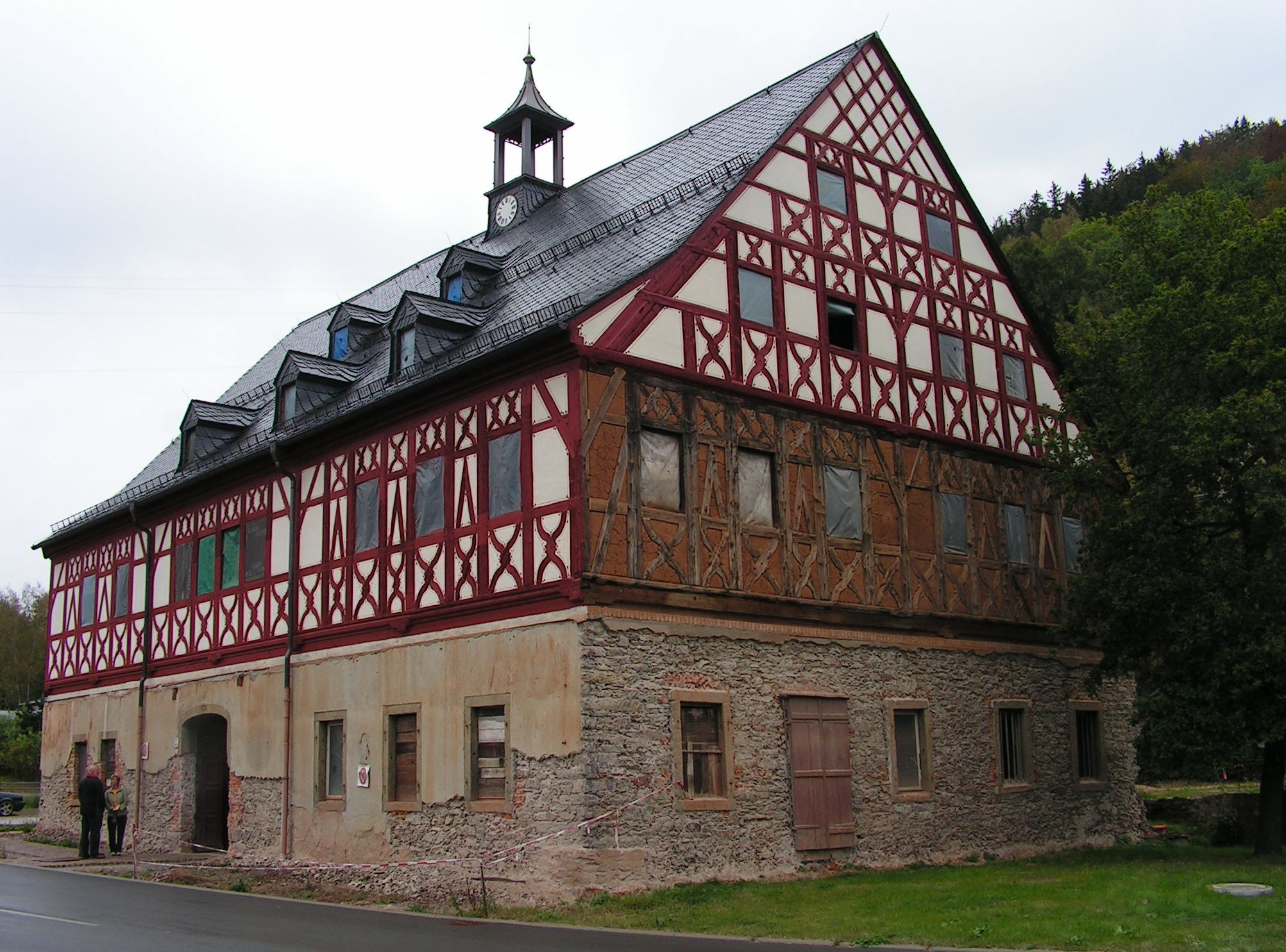 Auerhammer mansion